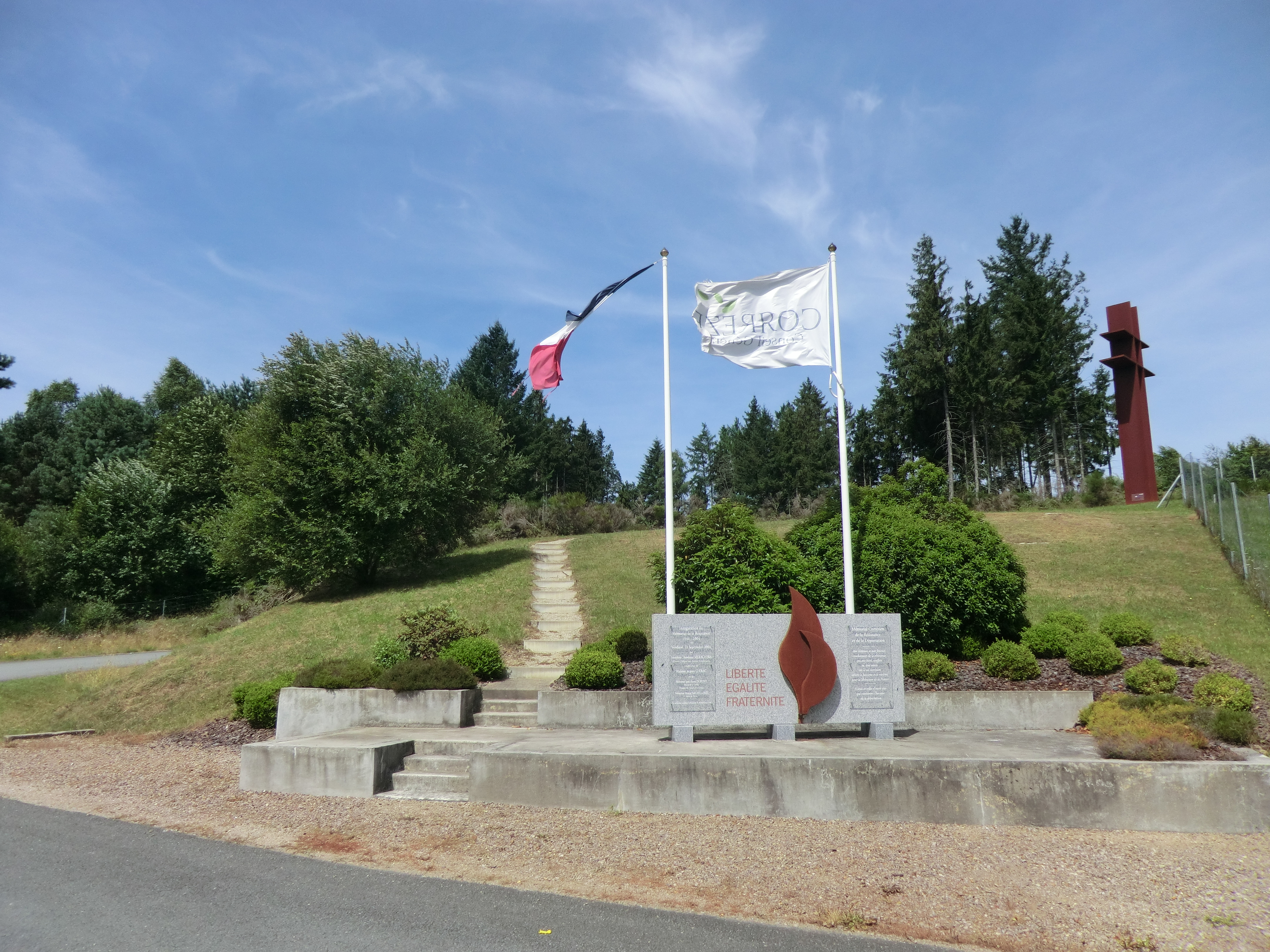 Monument corrézien de la Résistance et de la déportation.